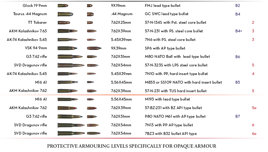 Ballistics amunition data